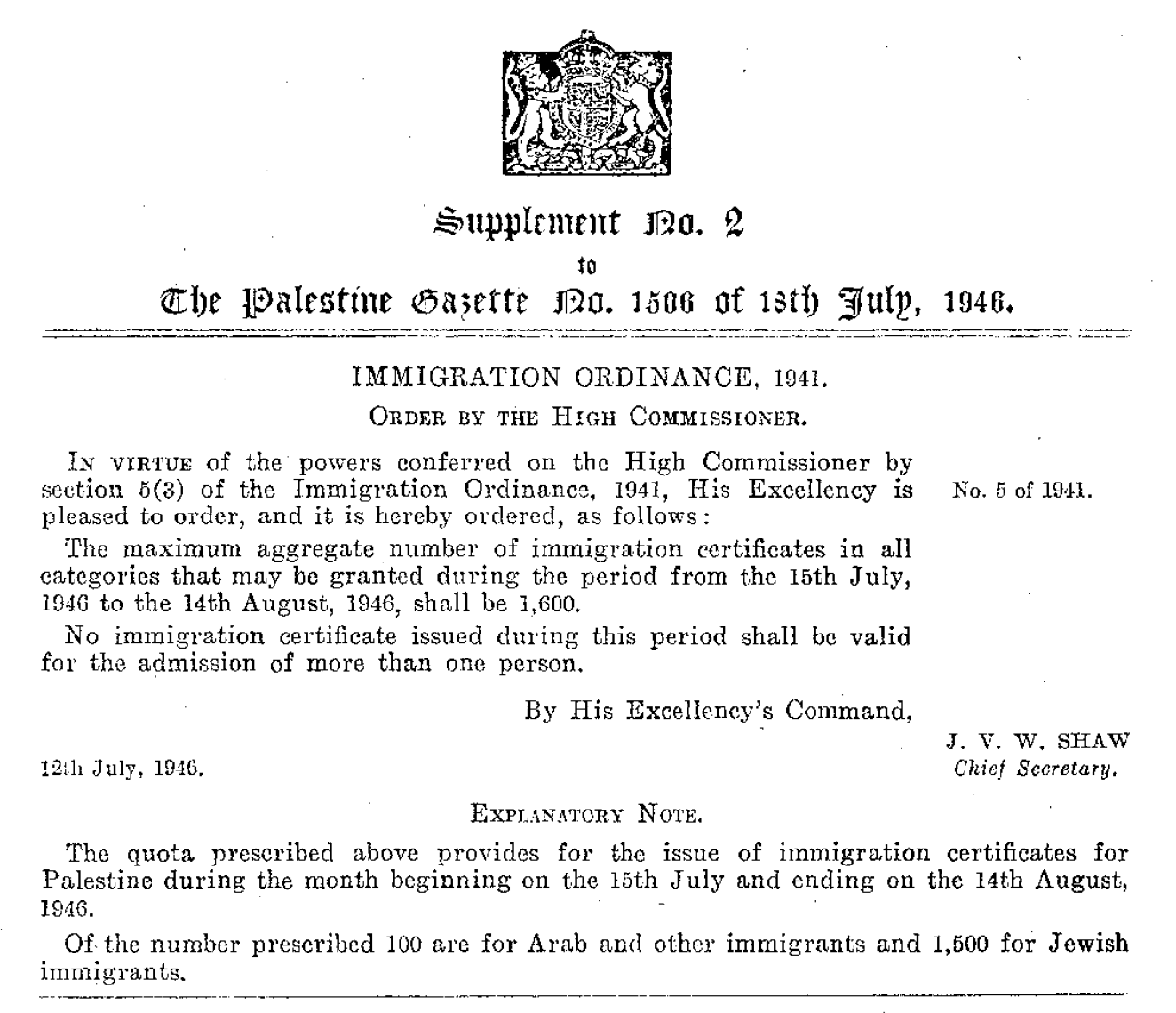 This is a typical announcement in the official Gazette of the Government of Palestine, indicating the number of immigration certificates available for one month.